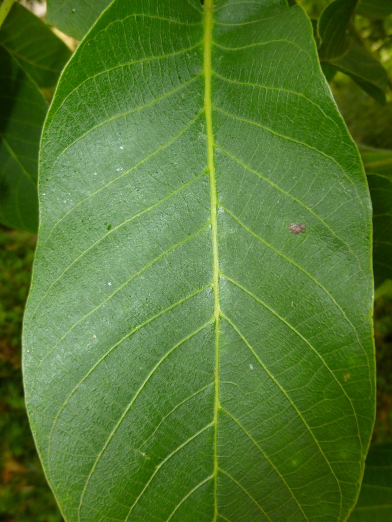 Walnut leaf